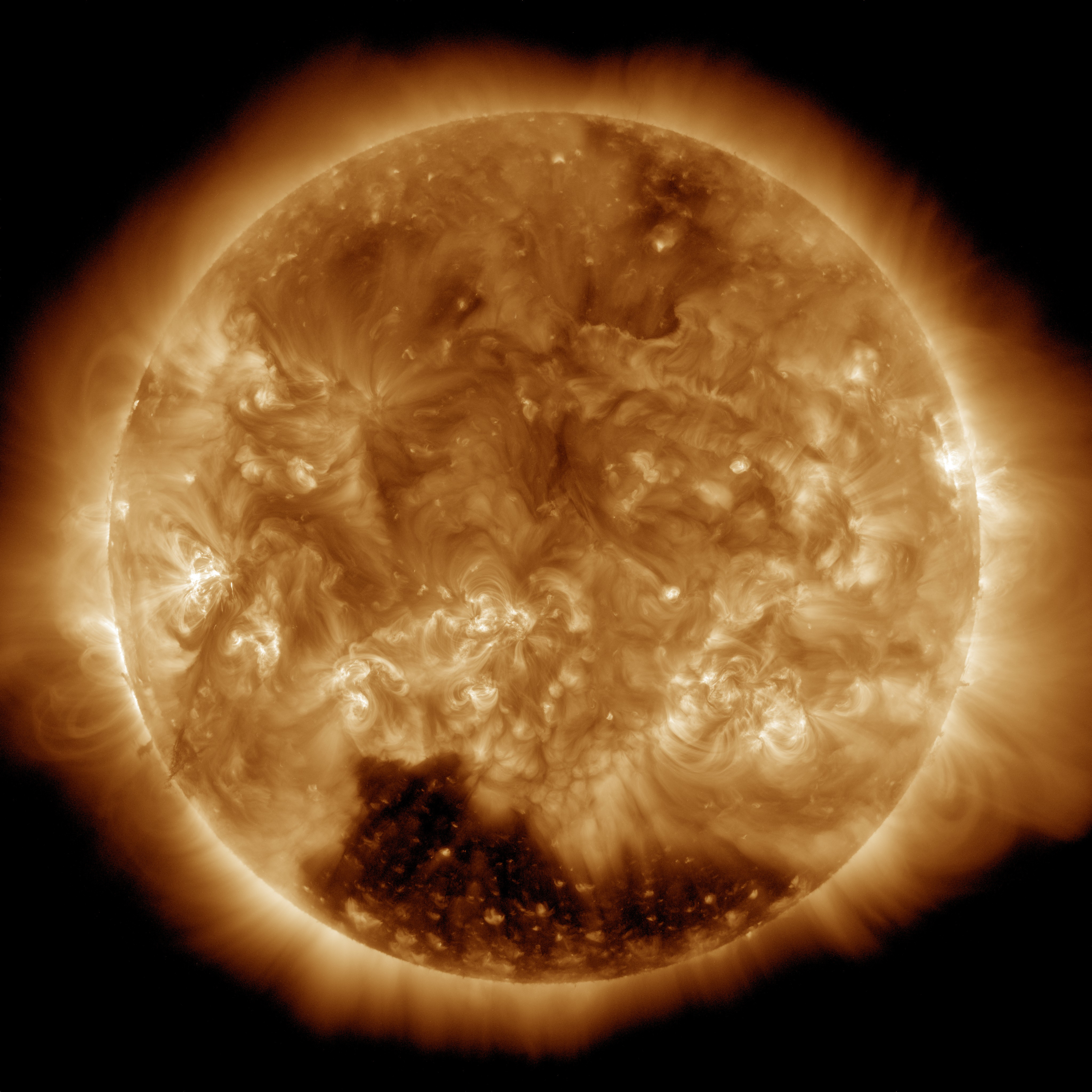 Image taken of the Sun by the Solar Dynamics Observatory at 193 Ångströms.